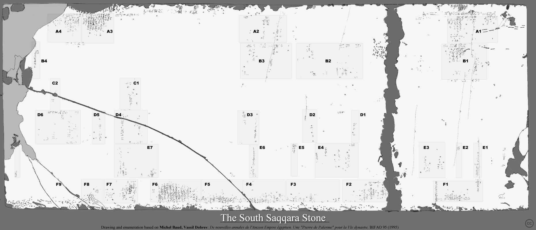 The South Saqqara Stone from the tomb of queen Ankhesenpepi/Ankhesenmerire.